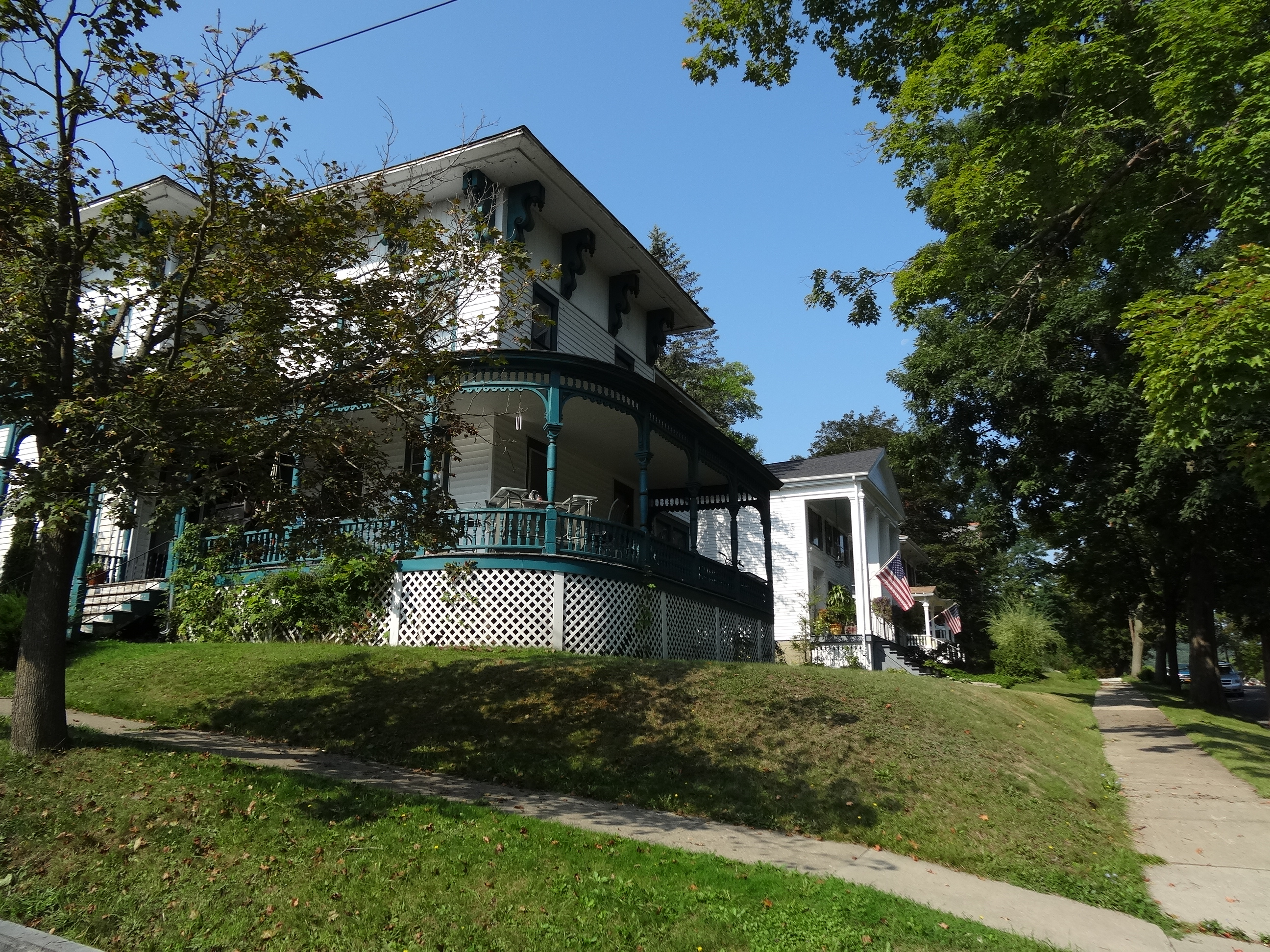 Southside Historic District West 2nd Street between Pine Street and Walnut Street (at Canfield Park).